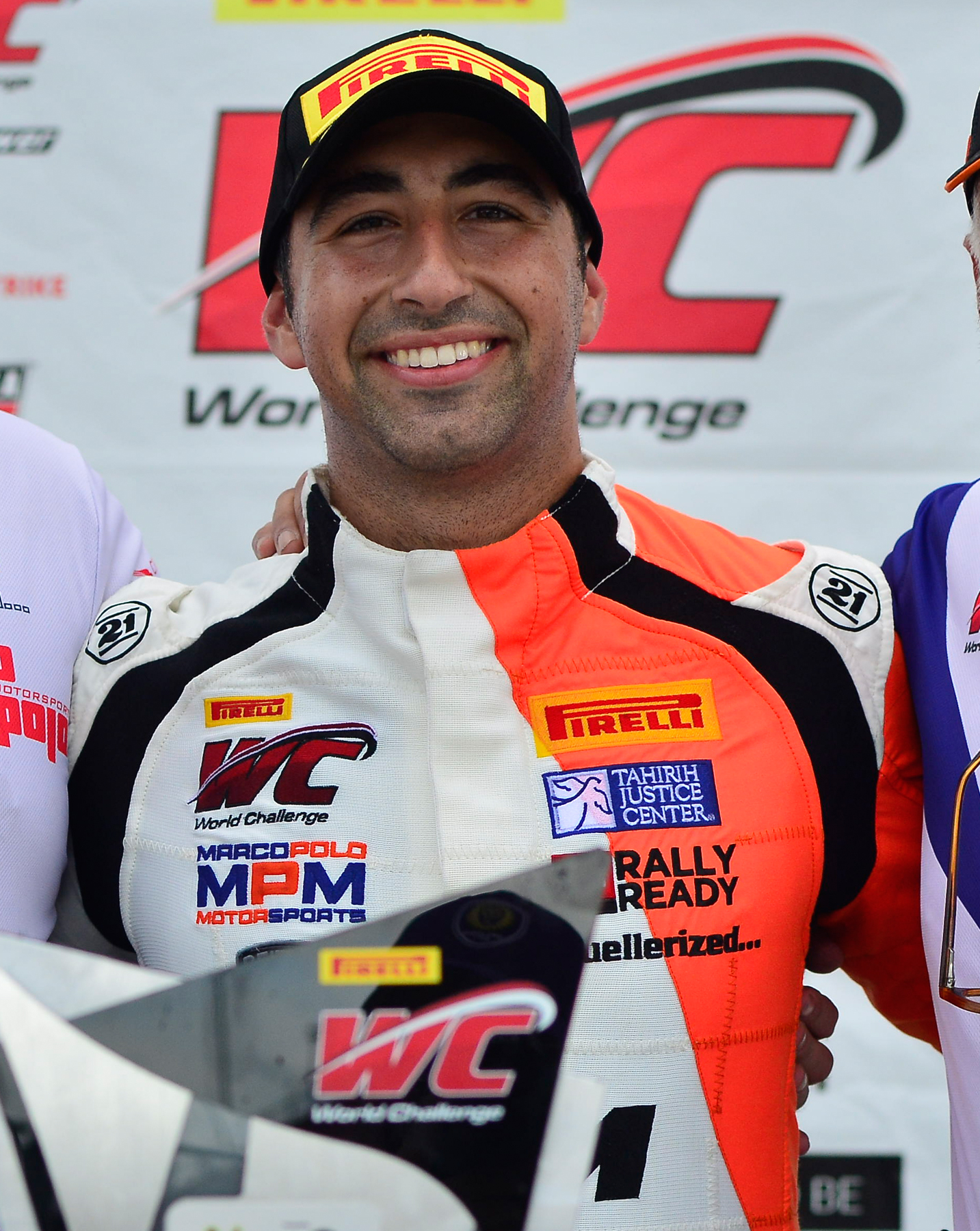 Photo of American sports car race car driver Nicolai Elghanayan at Watkins Glen International, 2018